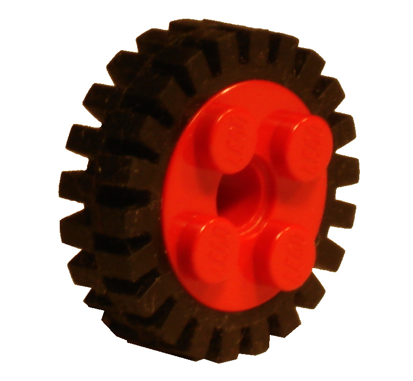 Lego Wheel